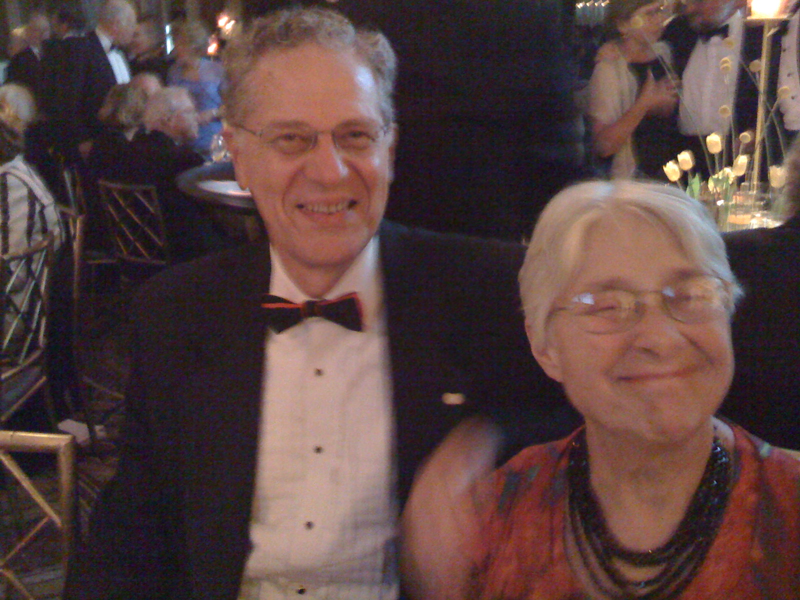 Joseph Hooton Taylor Jr., known to his friends as Joe Taylor, won the Nobel Prize in Physics in 1993 for his work in astrophysics. He and his wife Marietta Taylor are seen here at a benefit party in NYC honoring Maine's .